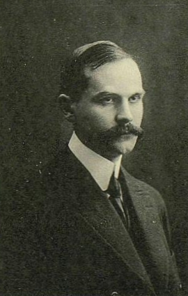 Alexander Meiendorf